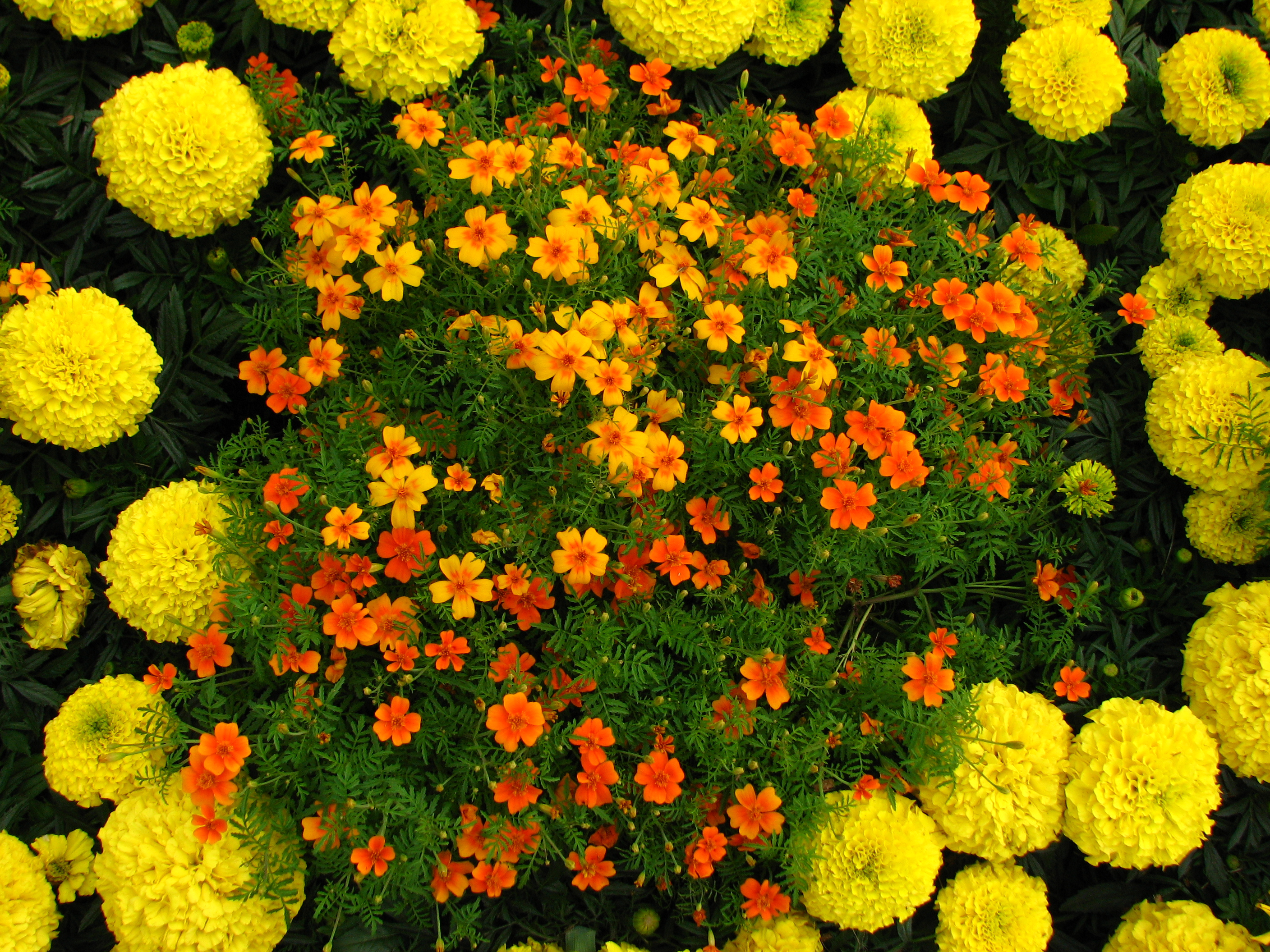 Flower beds in park Kolomenskoye (Moscow). Tagetes erecta and T. tenuifolia in a flower border.